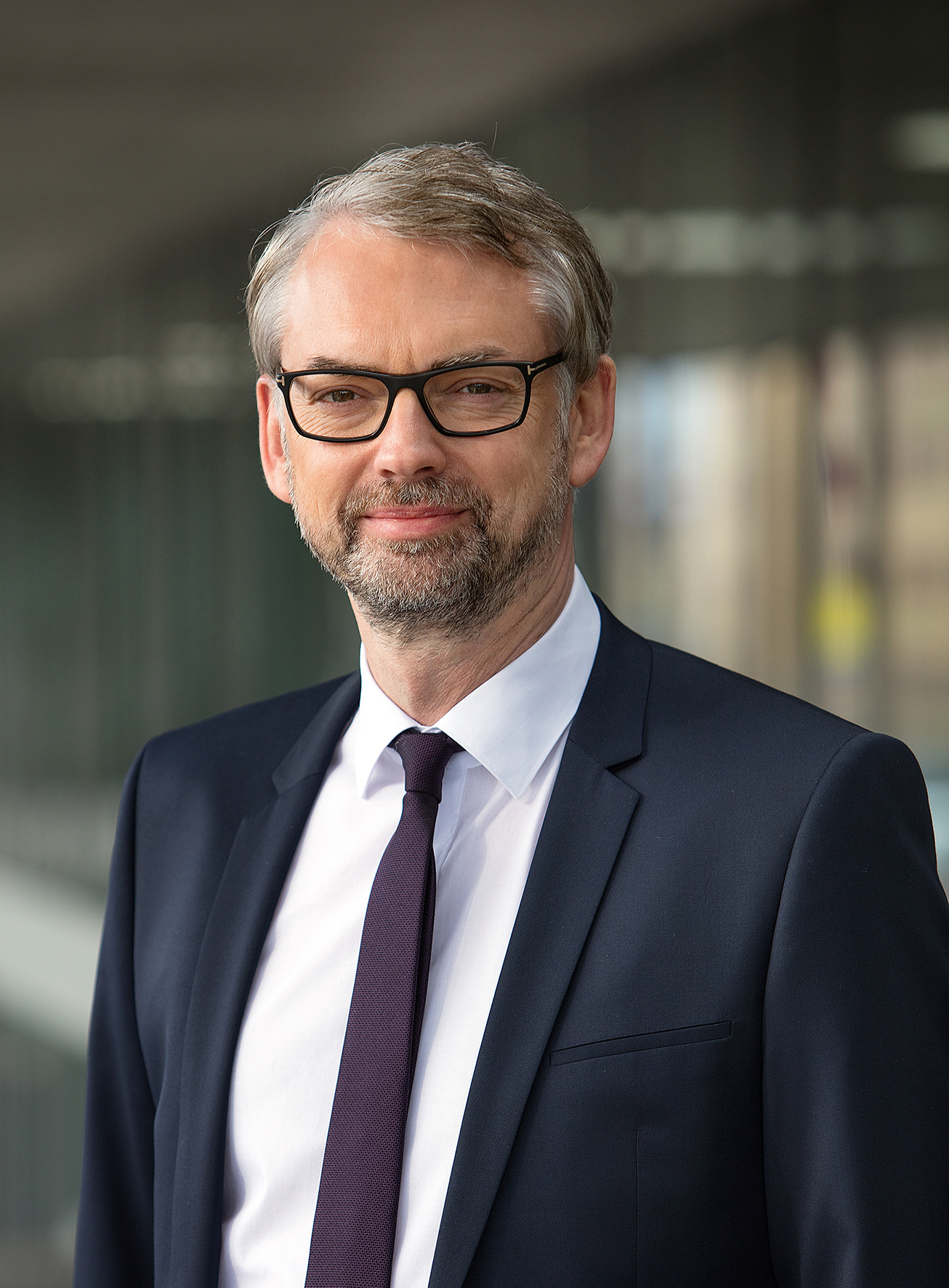 Vice-Governor Dr. Michael Strugl